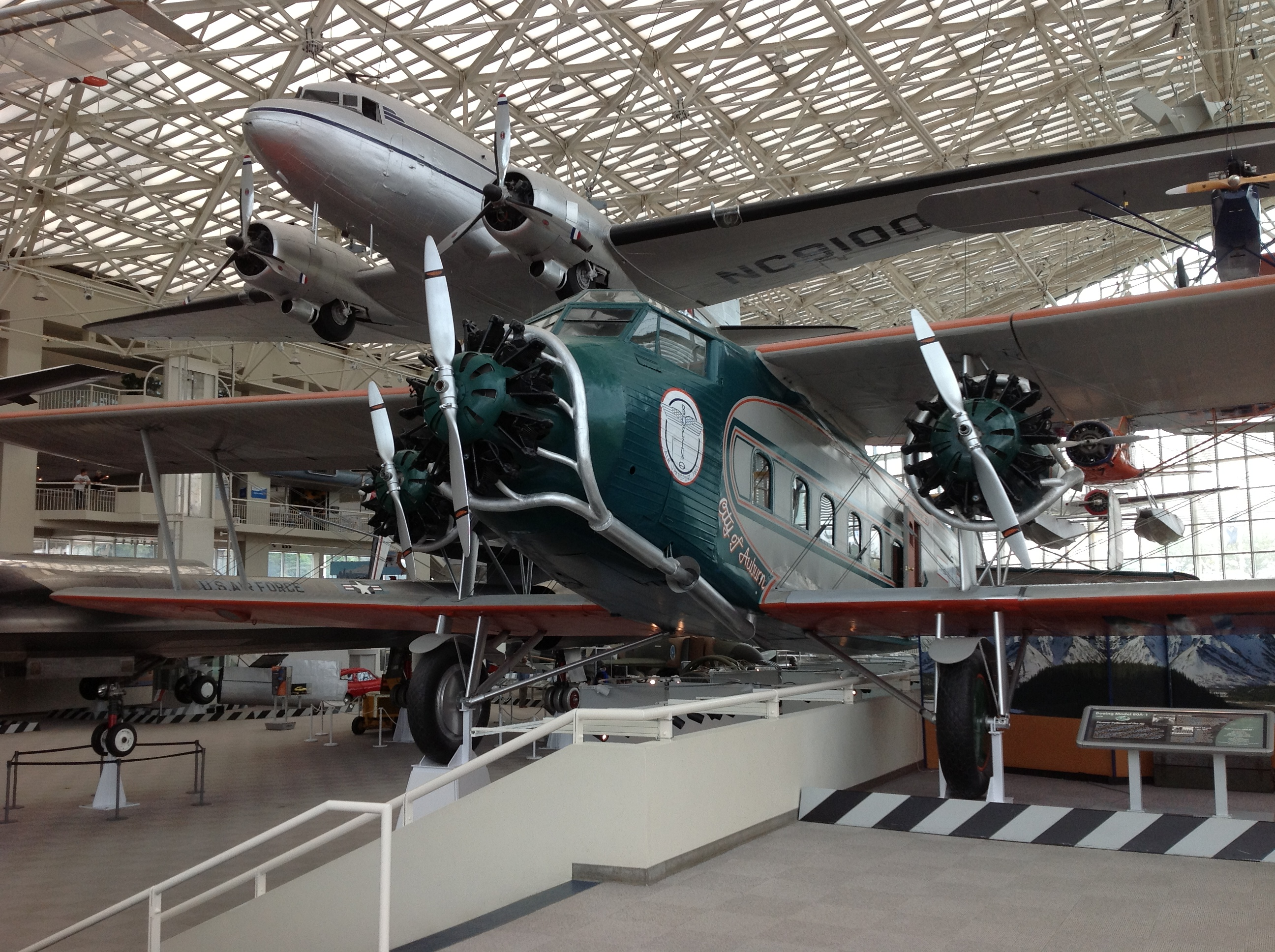 Boeing Model 80A-1 (1929), only survivor of this model. Recovered from dump in Alaska in 1960. Now an exhibit of Museum of Flight, Seattle.